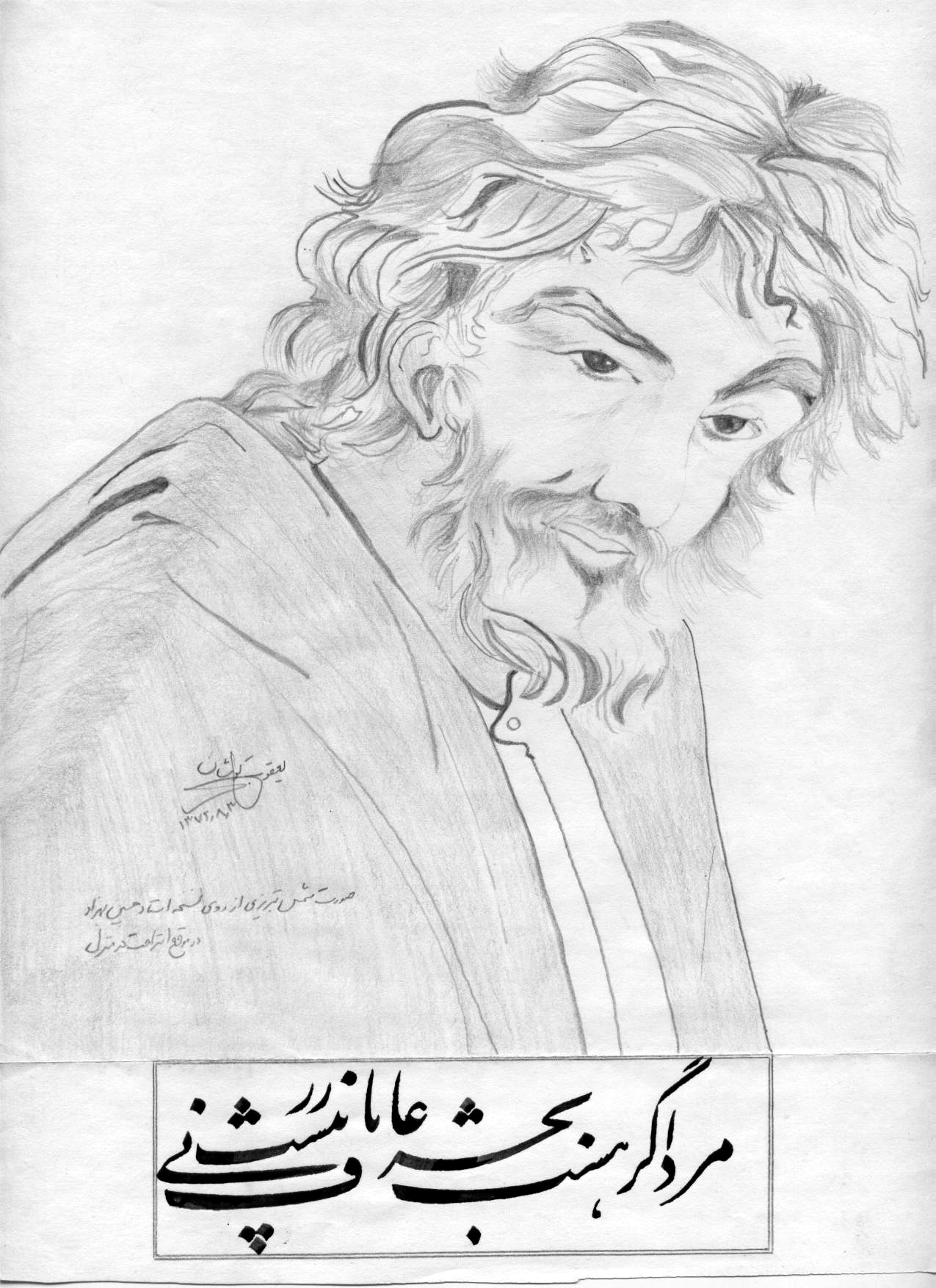 Drawing of Shams Tabrizi